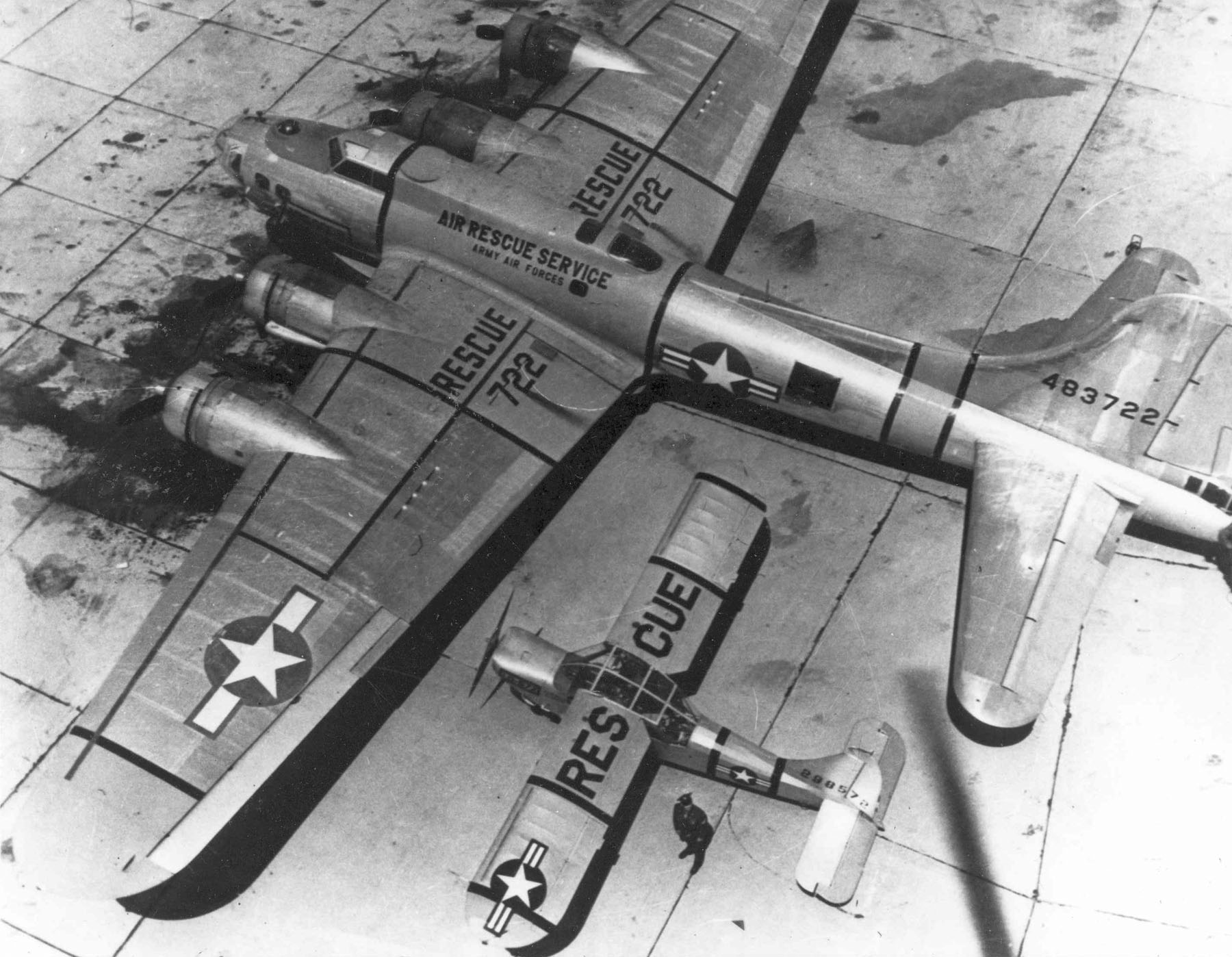 Top view of Boeing SB-17G-95DL (S/N 44-83722), assigned to the 2nd ERS as a Search and Rescue aircraft, with Stinson L-5 (S/N 42-98578).